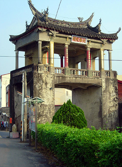 The famous old tower in MeiNong, Taiwan. 美濃鎮東門樓